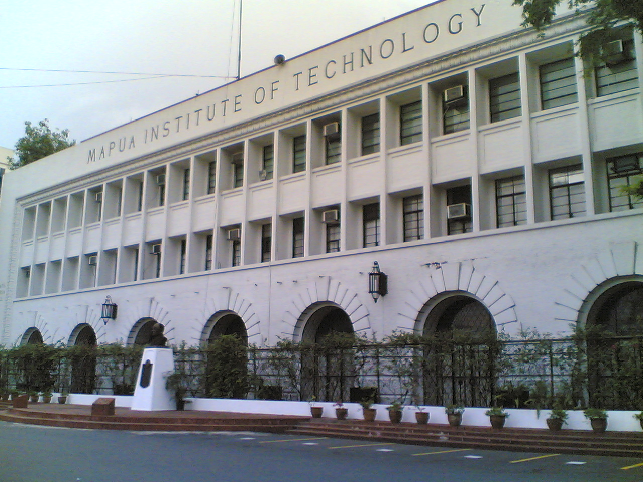 Facade of the administration building of Mapúa Intramuros Campus. Taken from a 1.3 MP cameraphone